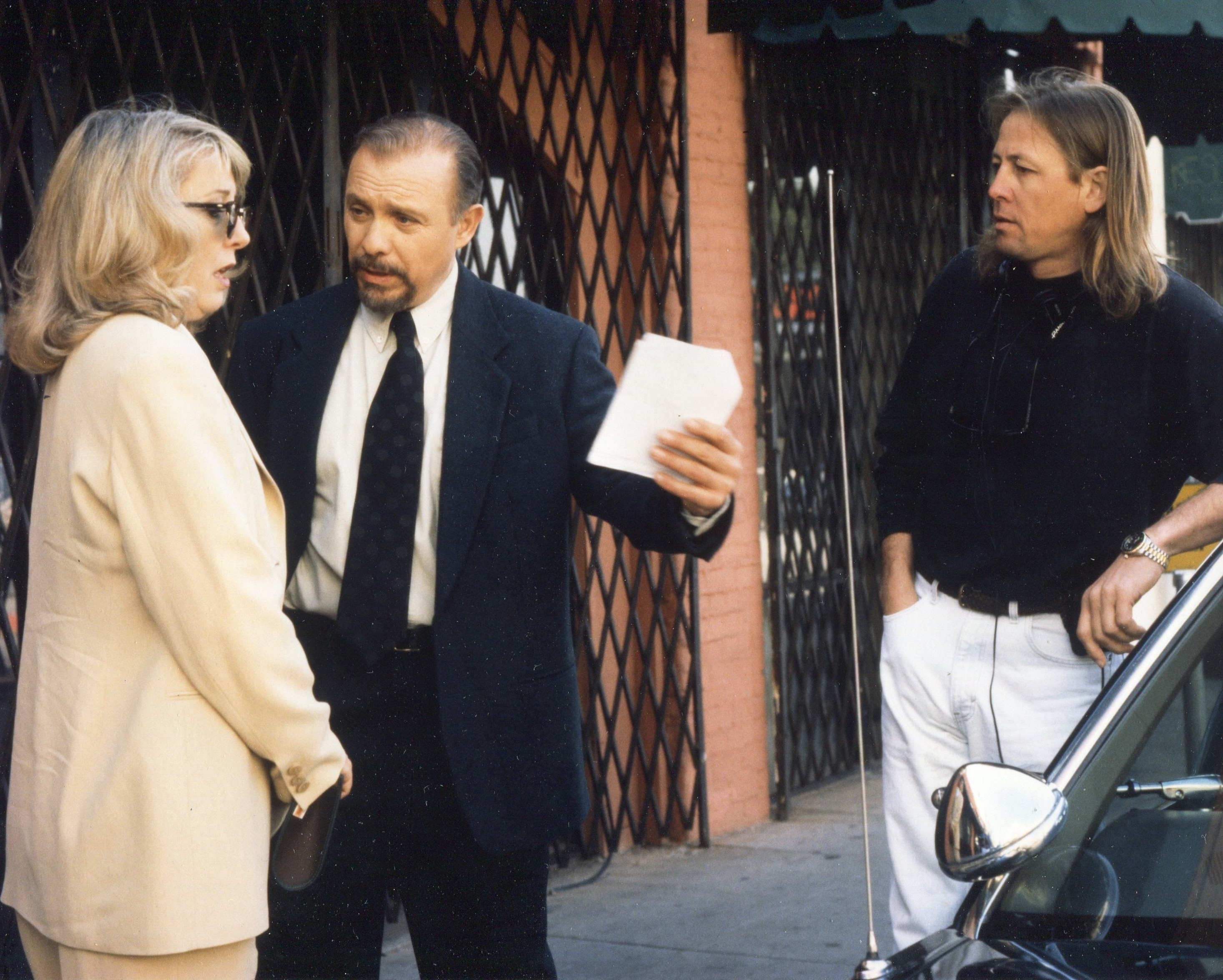 Teri Garr and Hector Elizondo on the set with director Kevin Meyer.